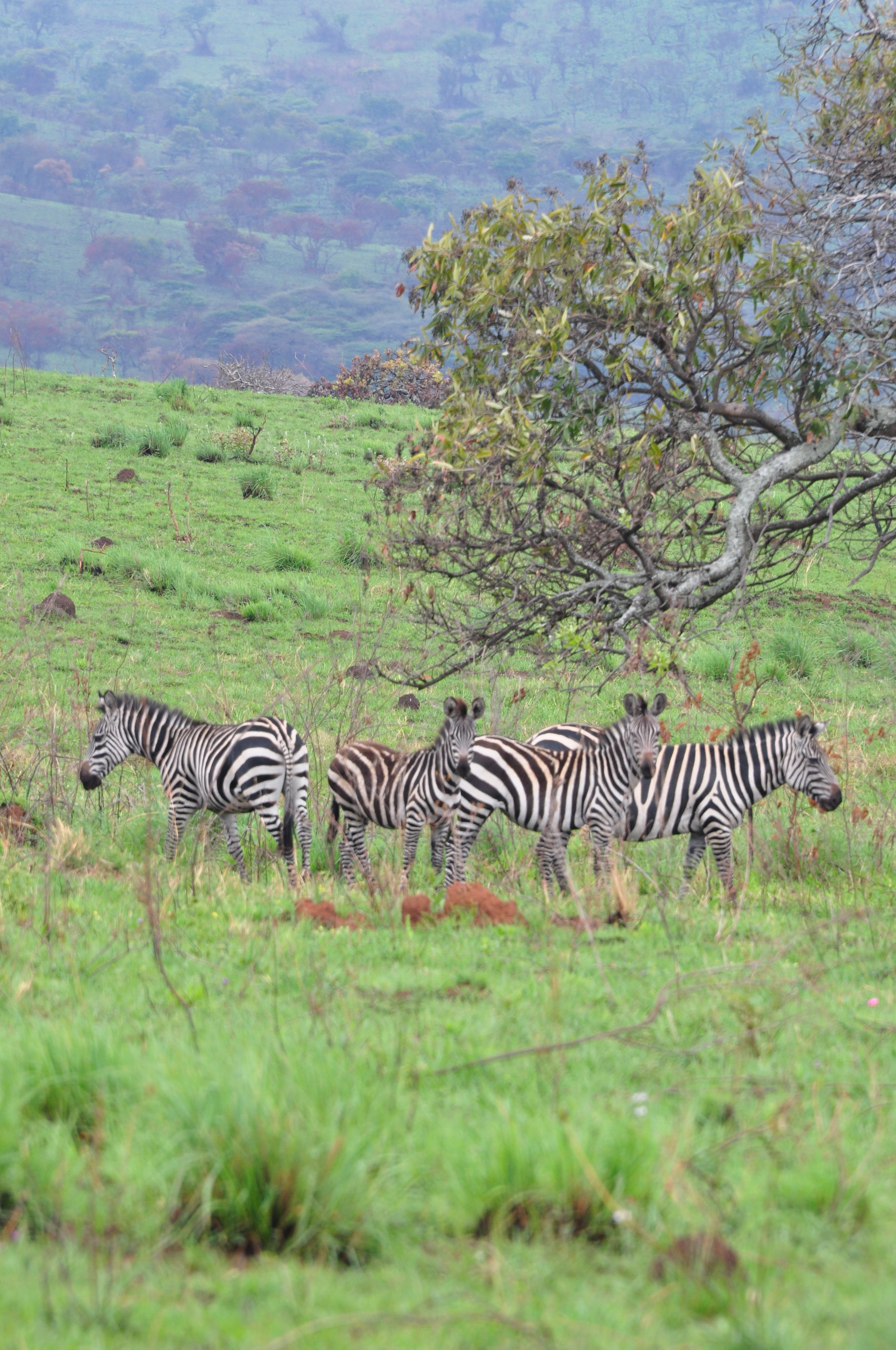 2012, Akagera National Park.